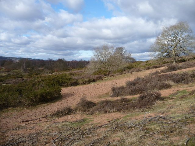 Hartlebury Common This is a local Nature Reserve comprising sandy heathland, a rare habitat in the Midlands.